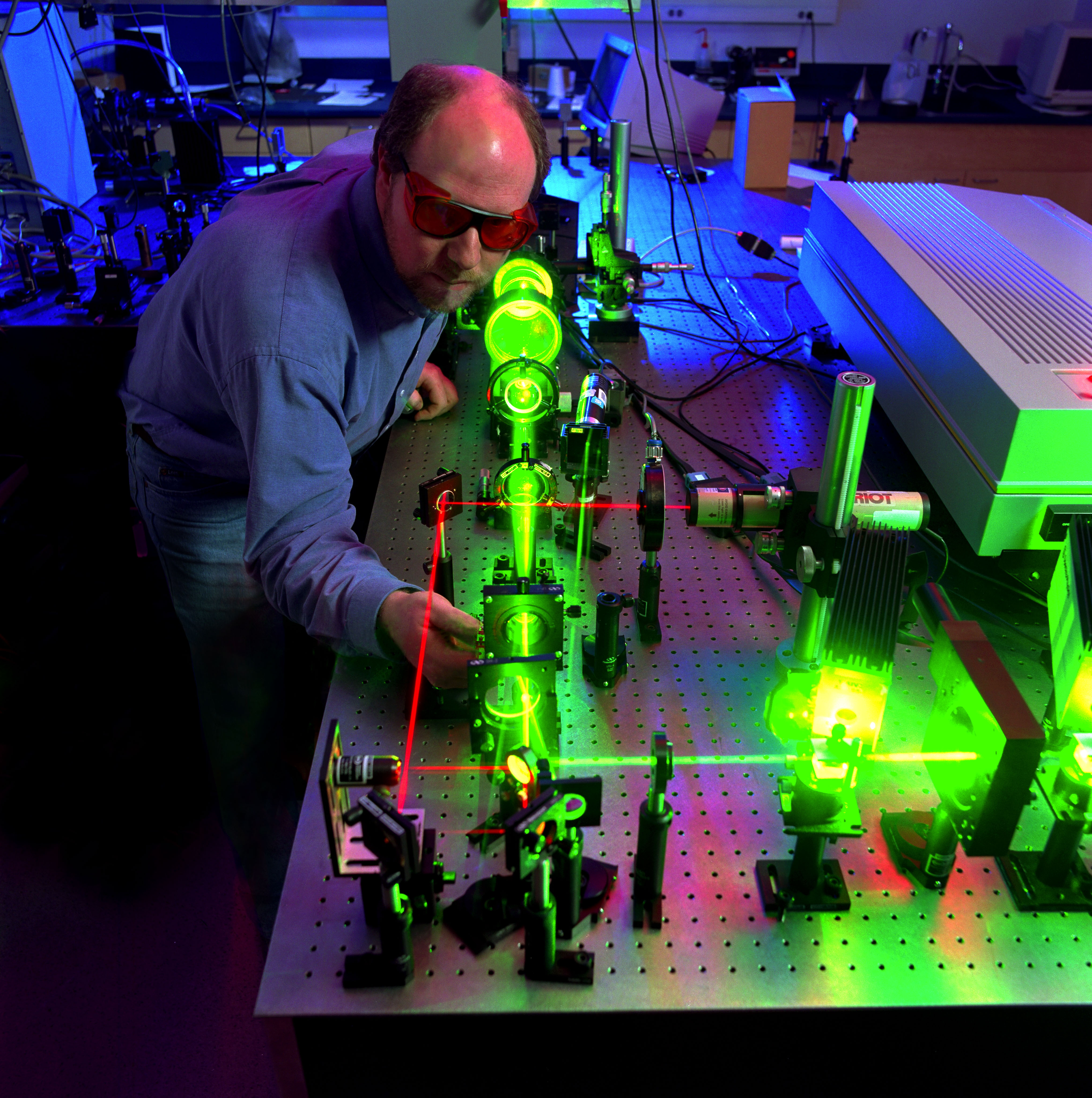 Andy Mott is measuring the optical limiting performance of a nonlinear material in a testbed used to simulate low F/# Army optics". With the threat of battlefield frequency-agile lasers on the horizon, the soldier will need optical protection that can protect his eyes and sensors from threats across the entire operating bandwidth, not just at fixed, discrete frequencies. The Nonlinear Optics team mission is to research and develop nonlinear optical limiting materials and devices that passively filter out damaging laser radiation at any incoming wavelength from an optical system, including soldiers eyes. Nonlinear materials and devices are transparent to the optical system until a laser threat is present, then turn-on, blocking the threat laser, but still allowing the viewing system to function normally in the presence of the threat.